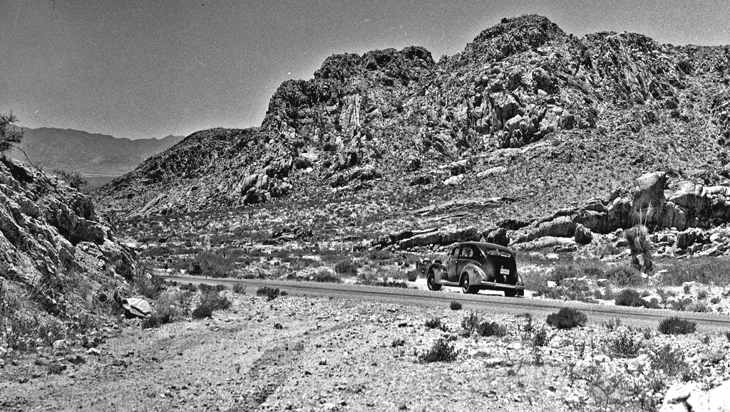 "Mountain pass west of Lordsburg, New Mexico, June 13, 1939" is typed on the negative envelope. That's our 1939 Ford in the photo. I was 15 and had recently gotten my drivers license so I did lots of driving on this trip. I recall the vast emptiness of the West between cities. I enjoyed viewing the large size of the interesting countryside and also noticed the AAA emblem atop the license plate.